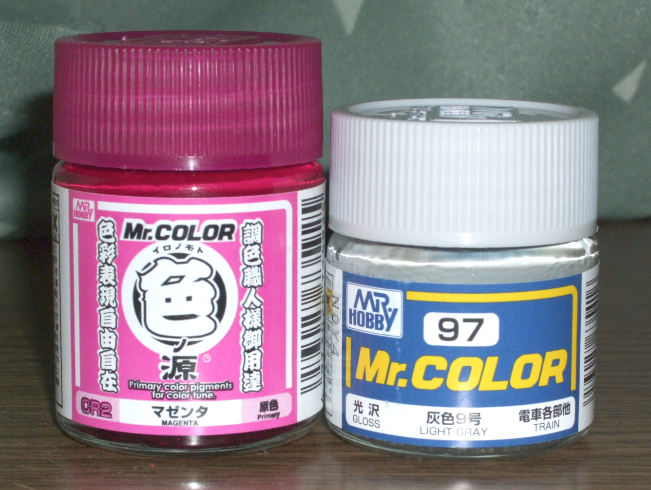 Mr.COLOR by GSI CREOS